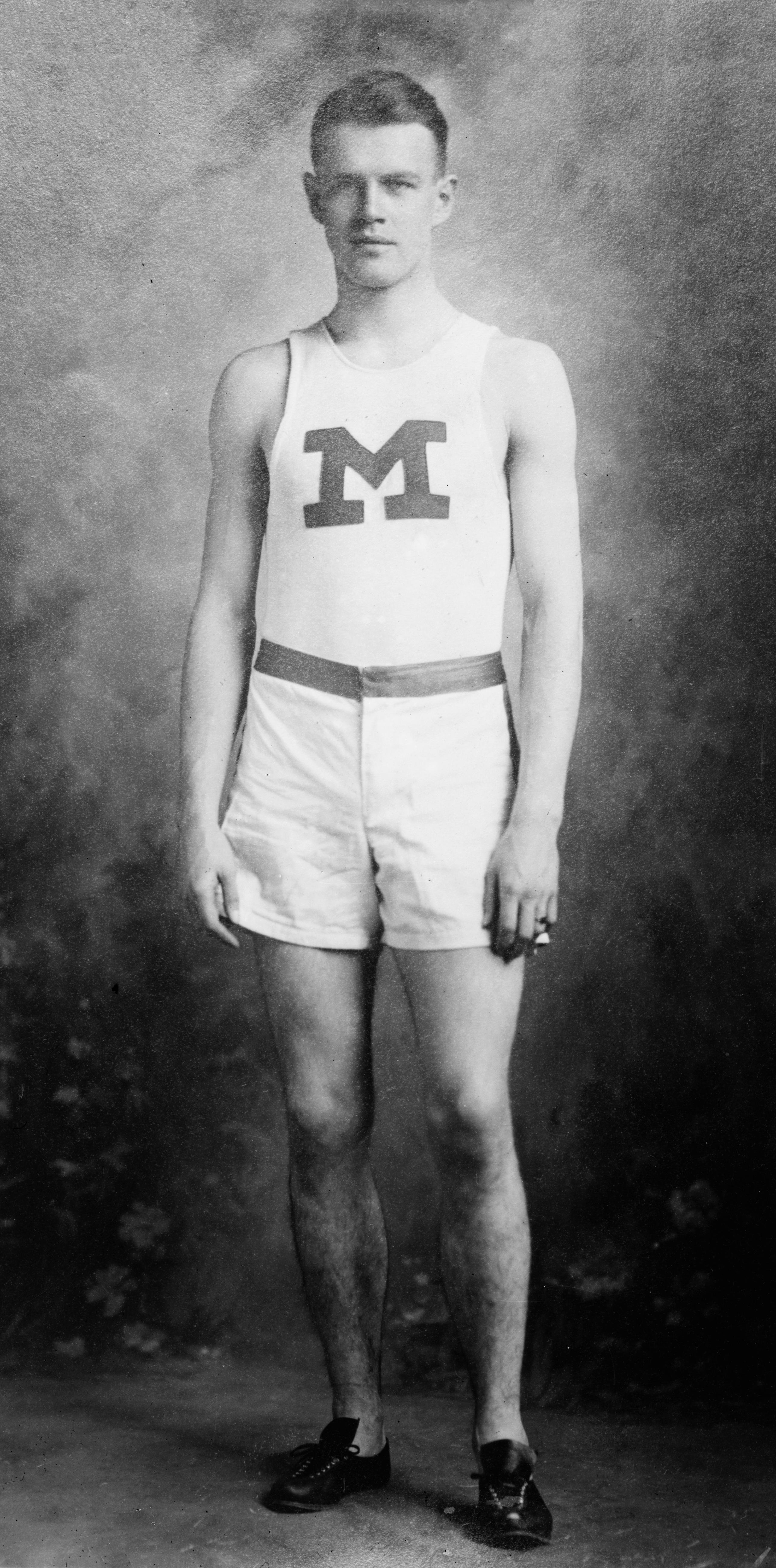 Ralph Craig, (1889-1972), a University of Michigan graduate who won two gold medals as a sprinter in the 1912 Summer Olympics in Stockholm. (Source: Flickr commons project) (extract from an original text)